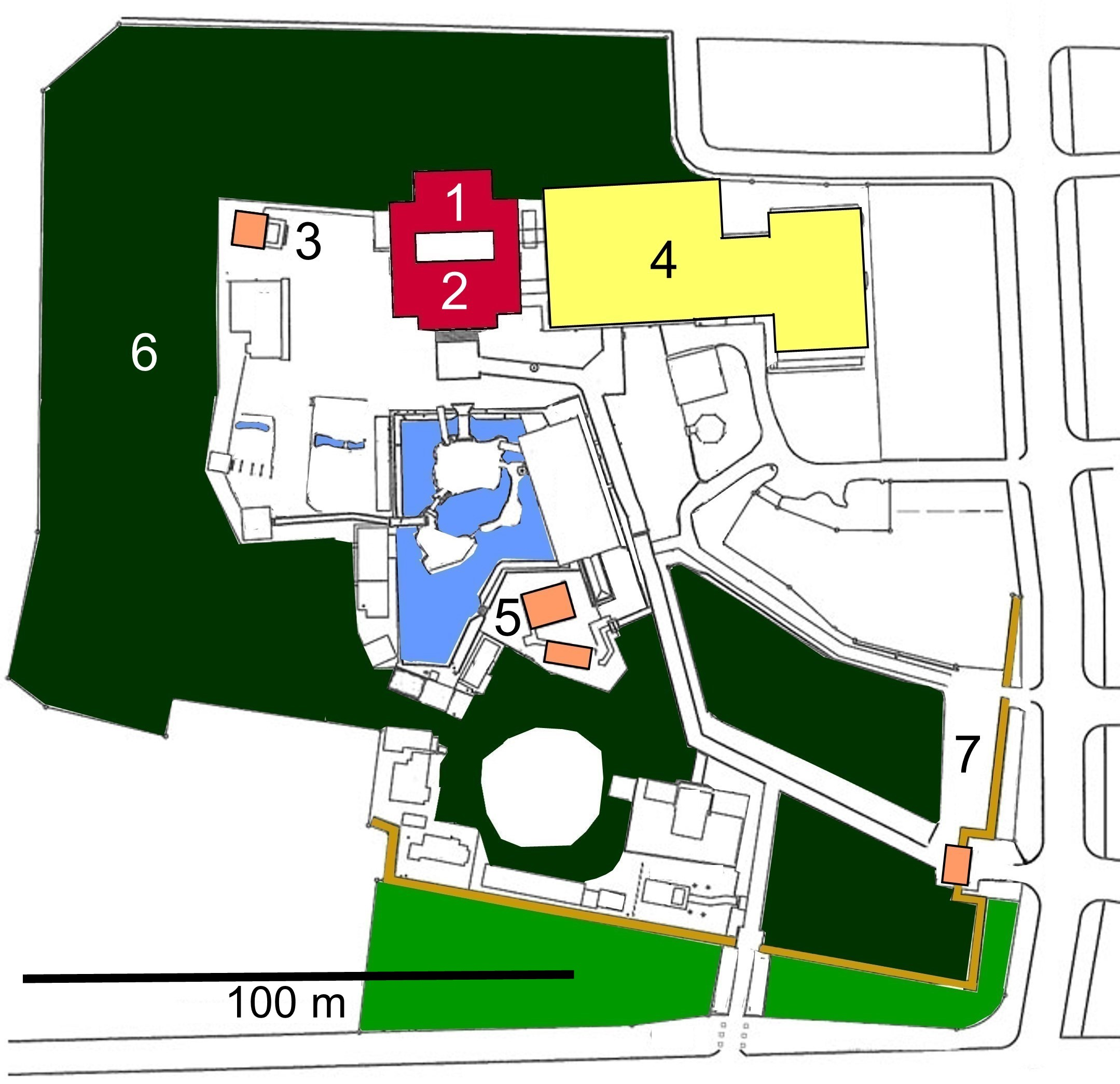 Layout og Nishinomiya shrine